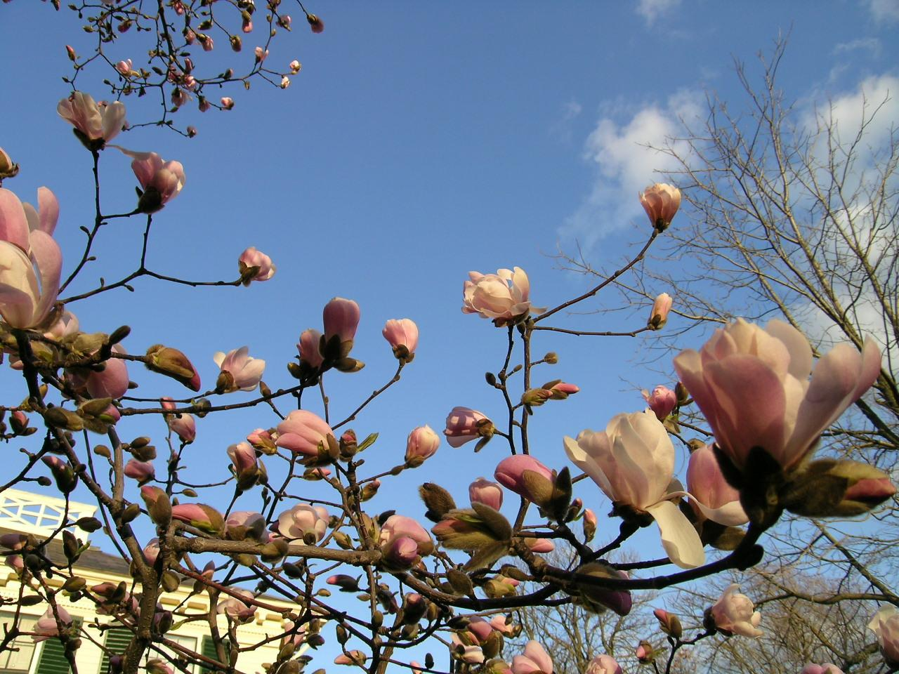 Magnolia blossoms bloom in early April on the grounds of the Loring-Greenough House in Jamaica Plain, Massachusetts. April 2008 photo by John Stephen Dwyer. Own work according to User:Boston/Photos so it can be assumed that John Stephen Dwyer and User:Boston are the same person.